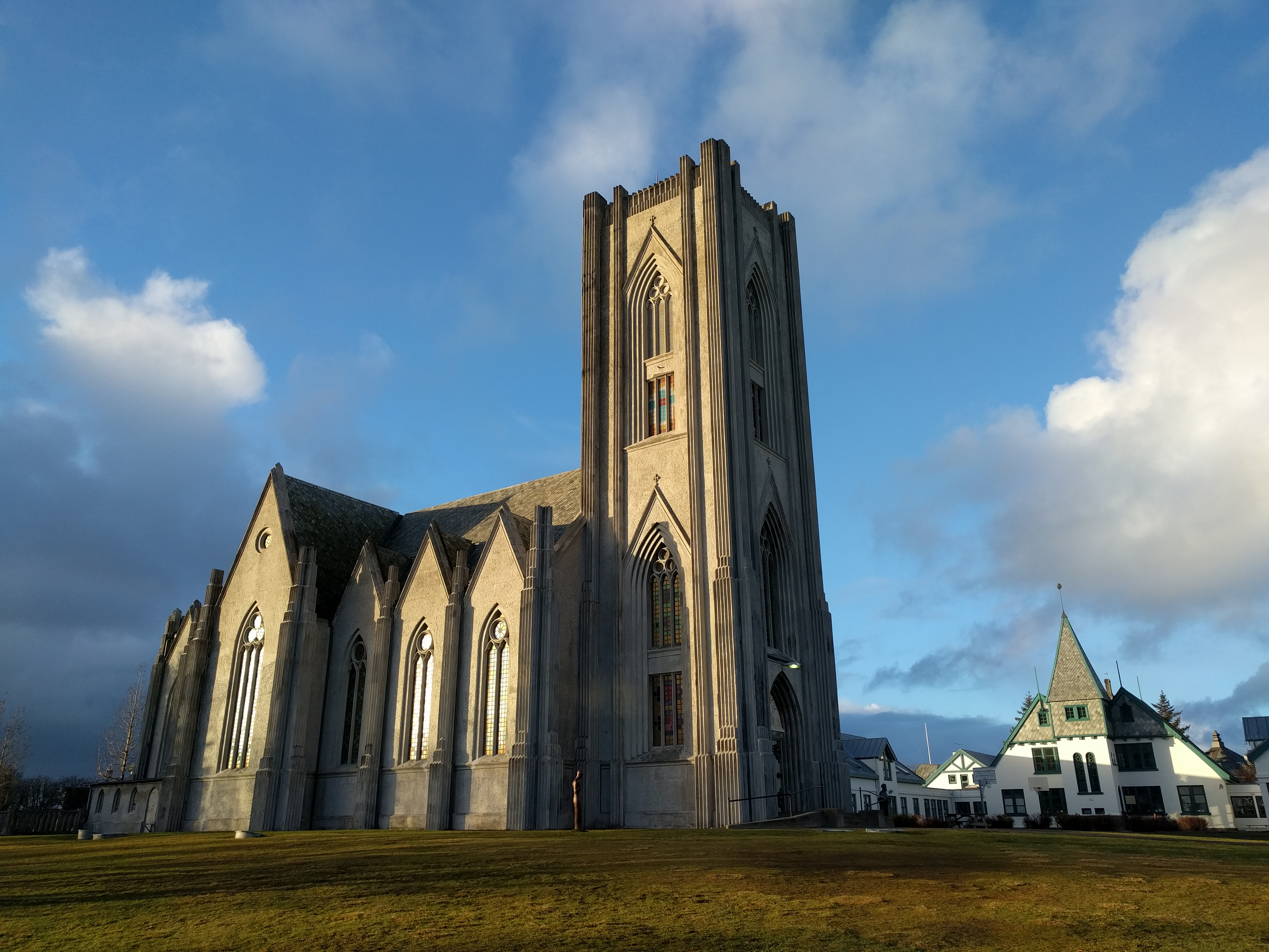 Landakotskirkja in Reykjavik in late October.